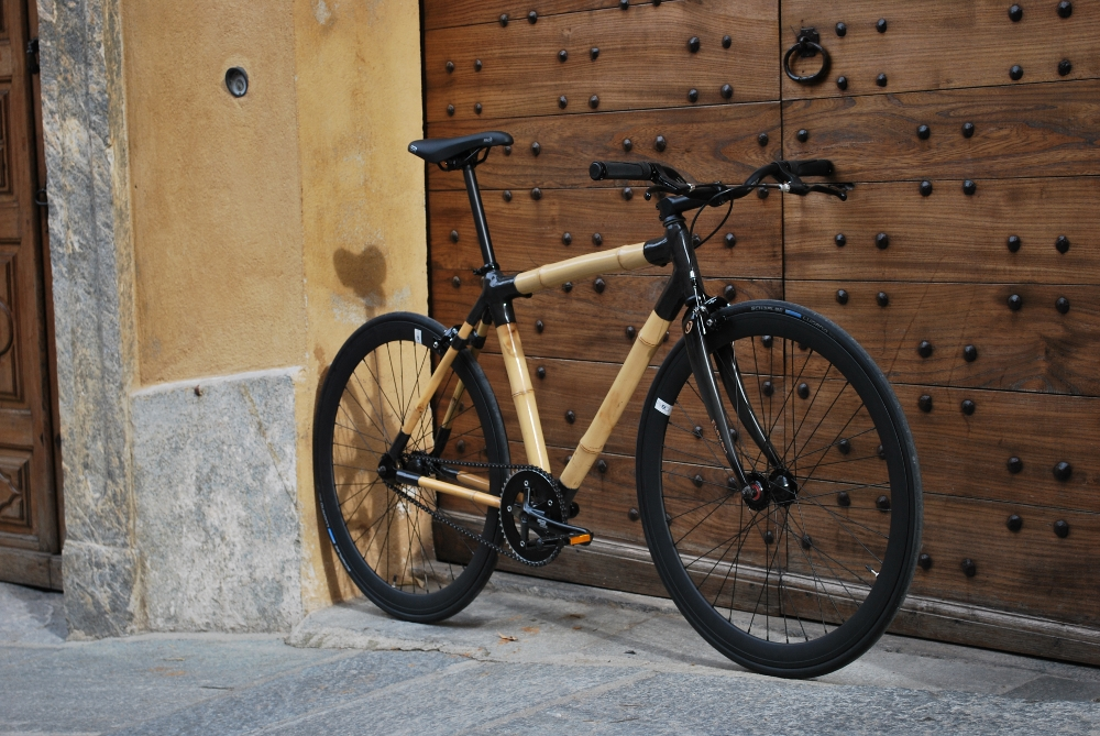 Italian handmade bamboo bicycle